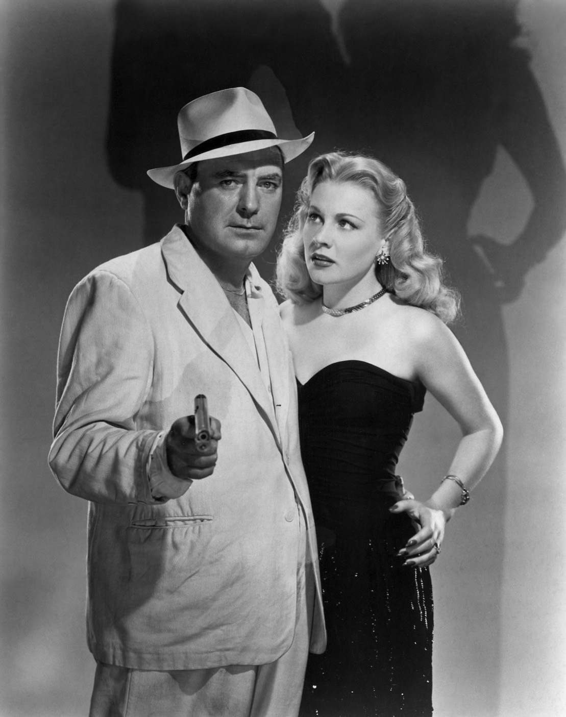 Pat O'Brien and Anne Jeffreys in Riffraff - publicity still